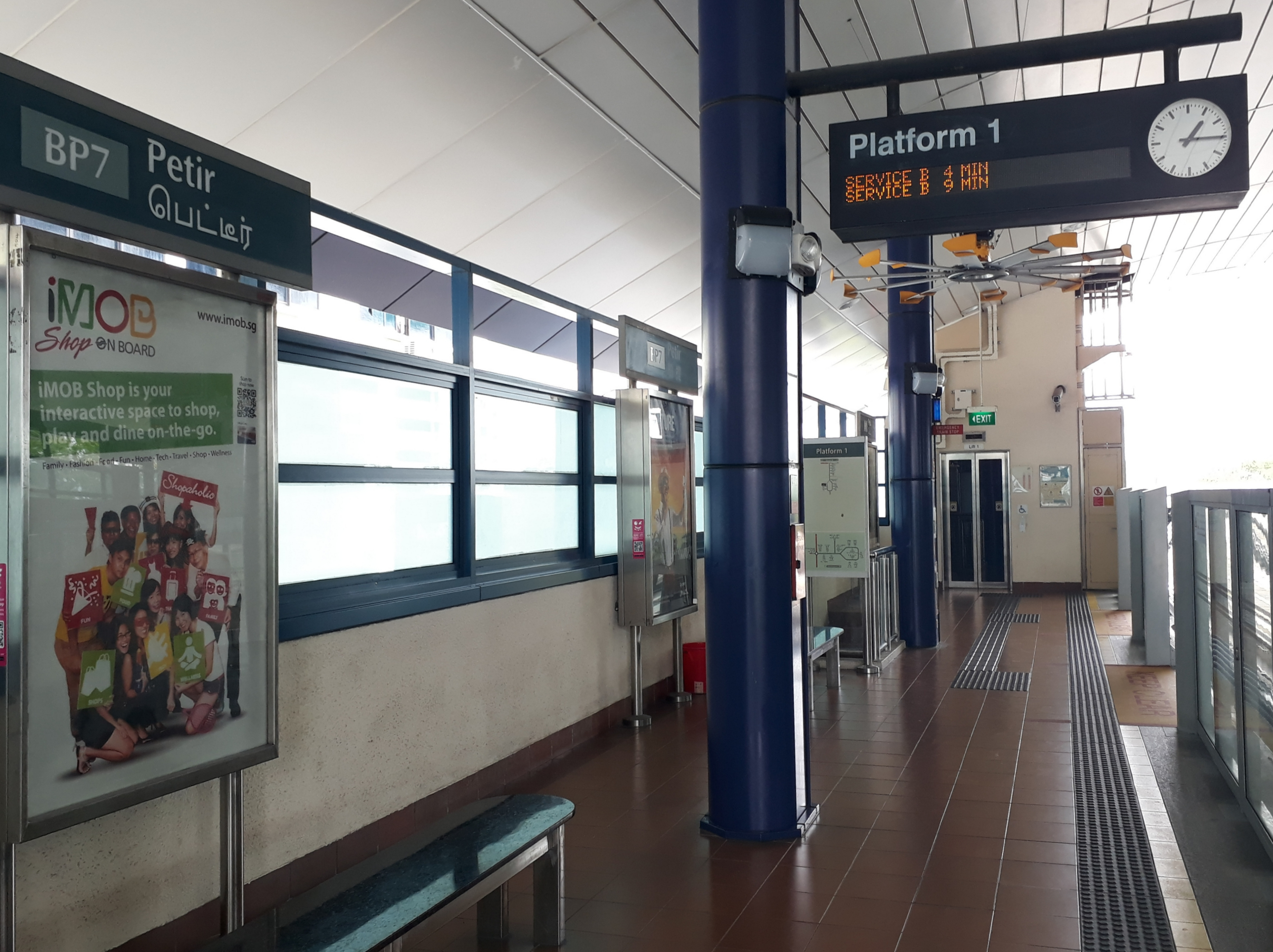 Platform 1 of Petir LRT